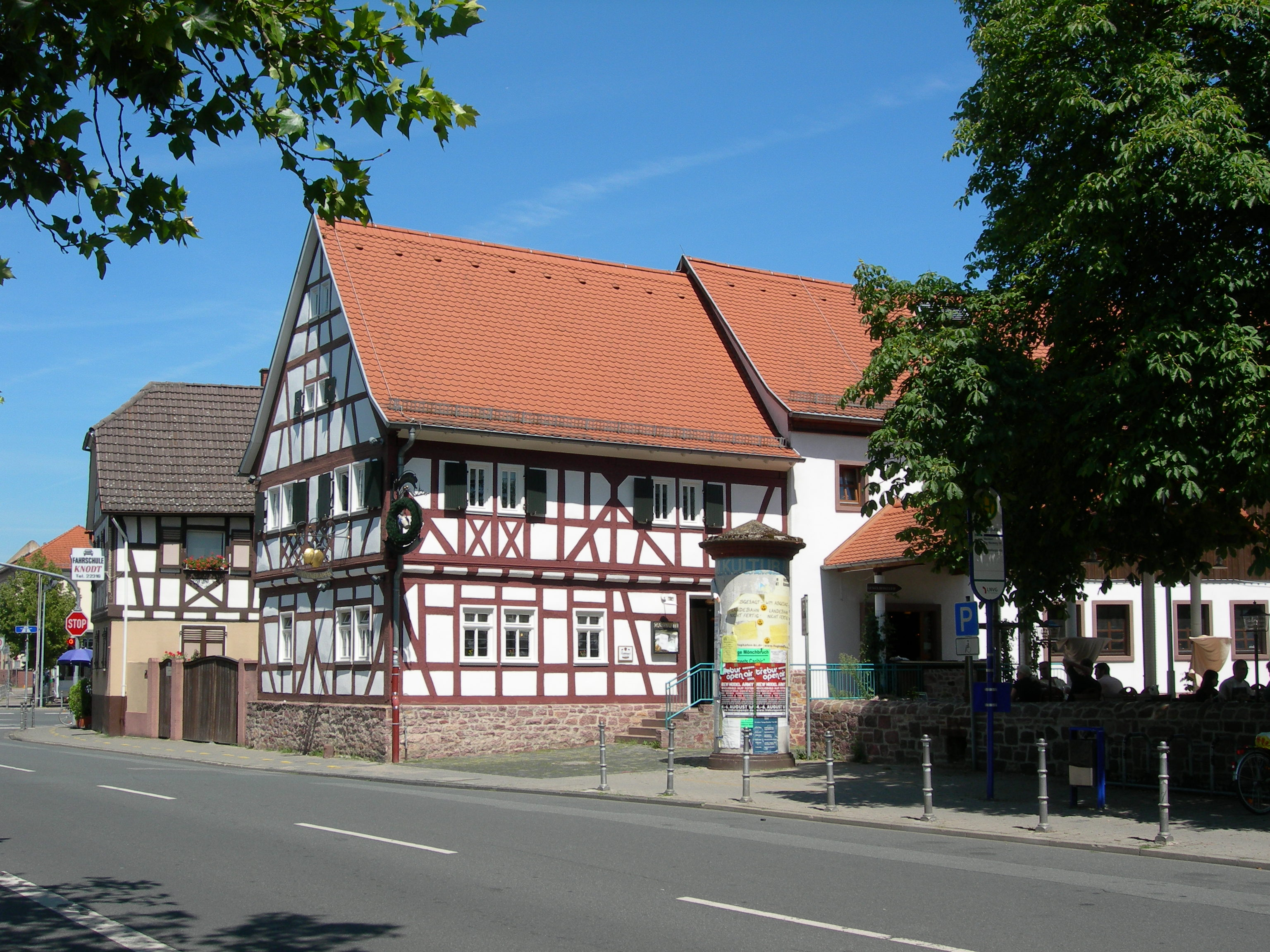 Mörfelden-Walldorf (Hesse), historic inn "Goldener Apfel" (Golden Apple)